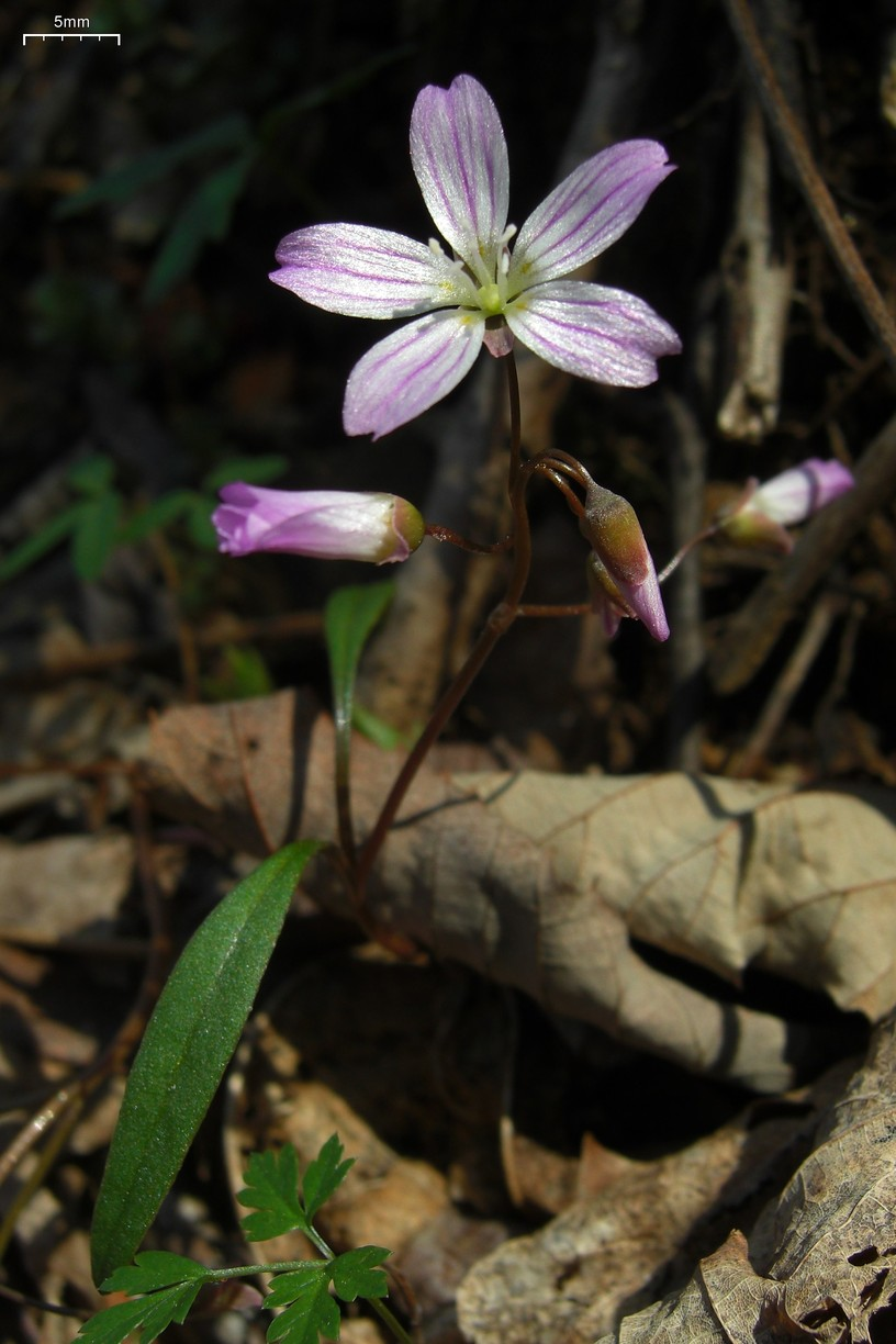 Claytonia virginica 20100411.98 US, NC, Smoky Mountains, Cataloochee